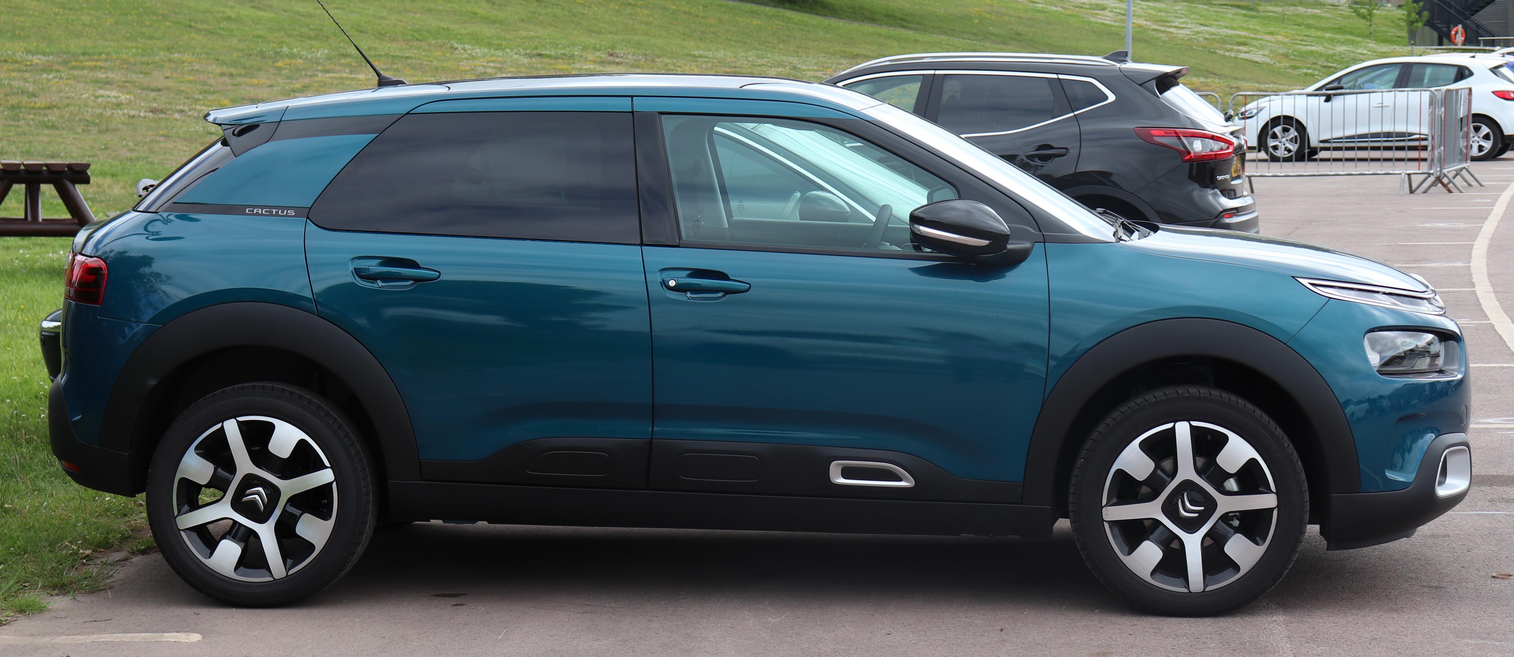 2018 Citroen C4 Cactus Flair BlueHDI S facelift 1.6 Side Taken at the British Motor Museum, Gaydon